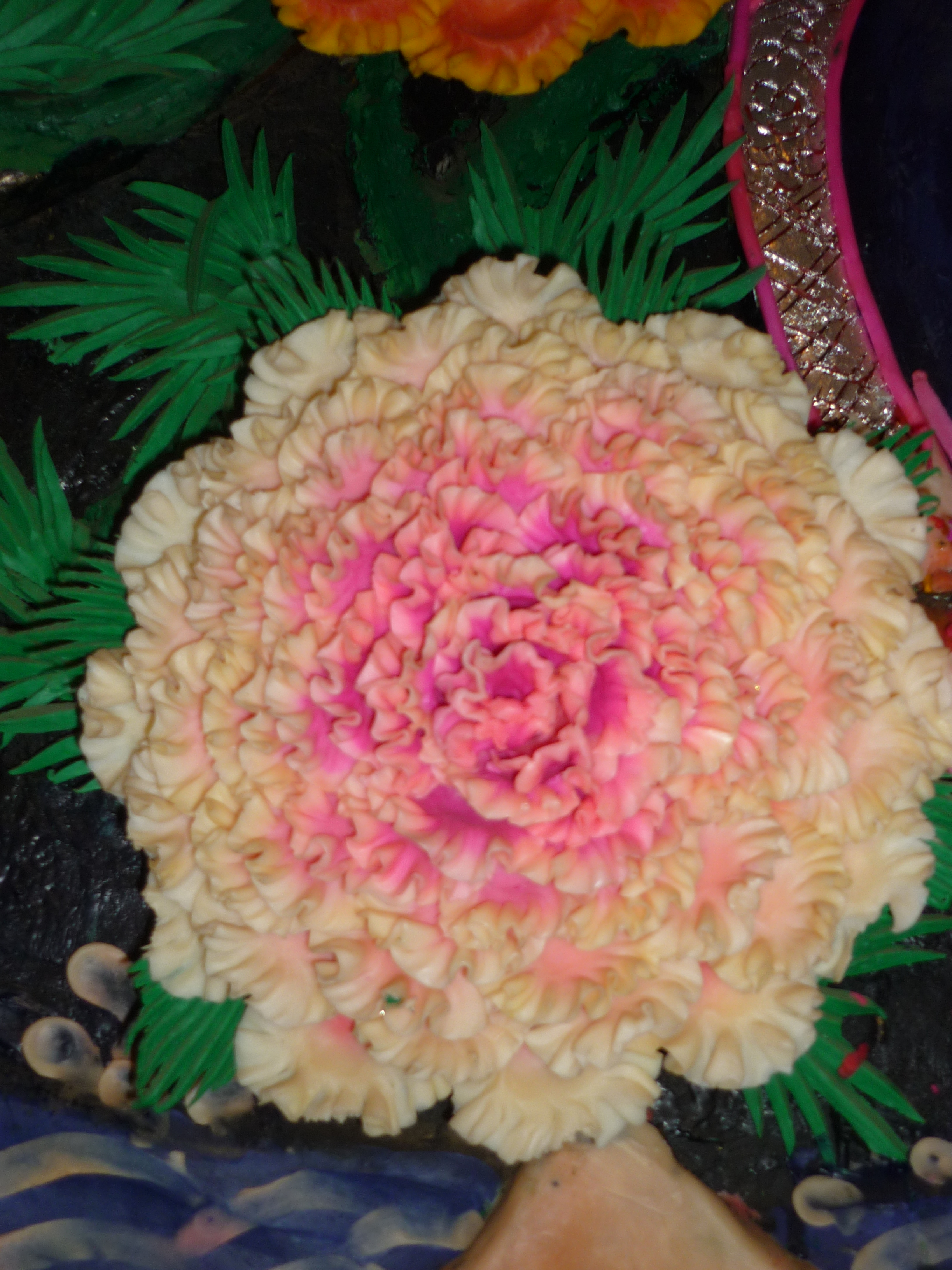 Labrang Monastery (Tibetan: བླ་བྲང་བཀྲ་ཤིས་འཁྱིལ་ Wylie: bla-brang bkra-shis-'khyil